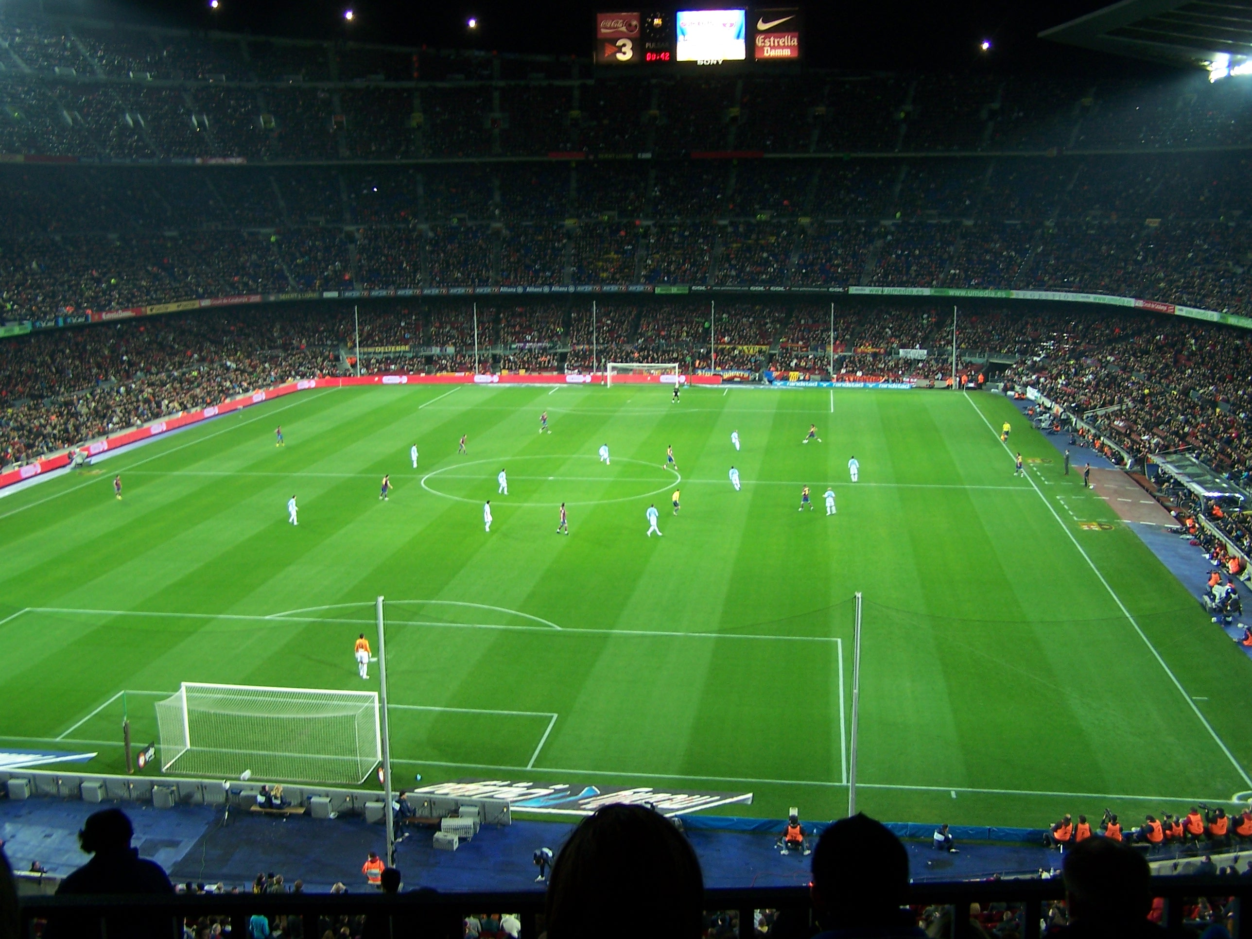 Camp Nou, Barcelona, Spain.